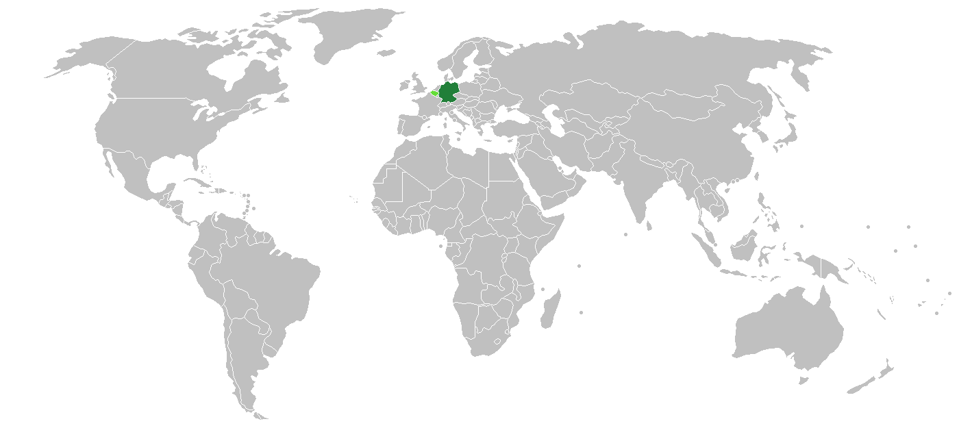 Countries where German Sign Language (DGS) is spoken.